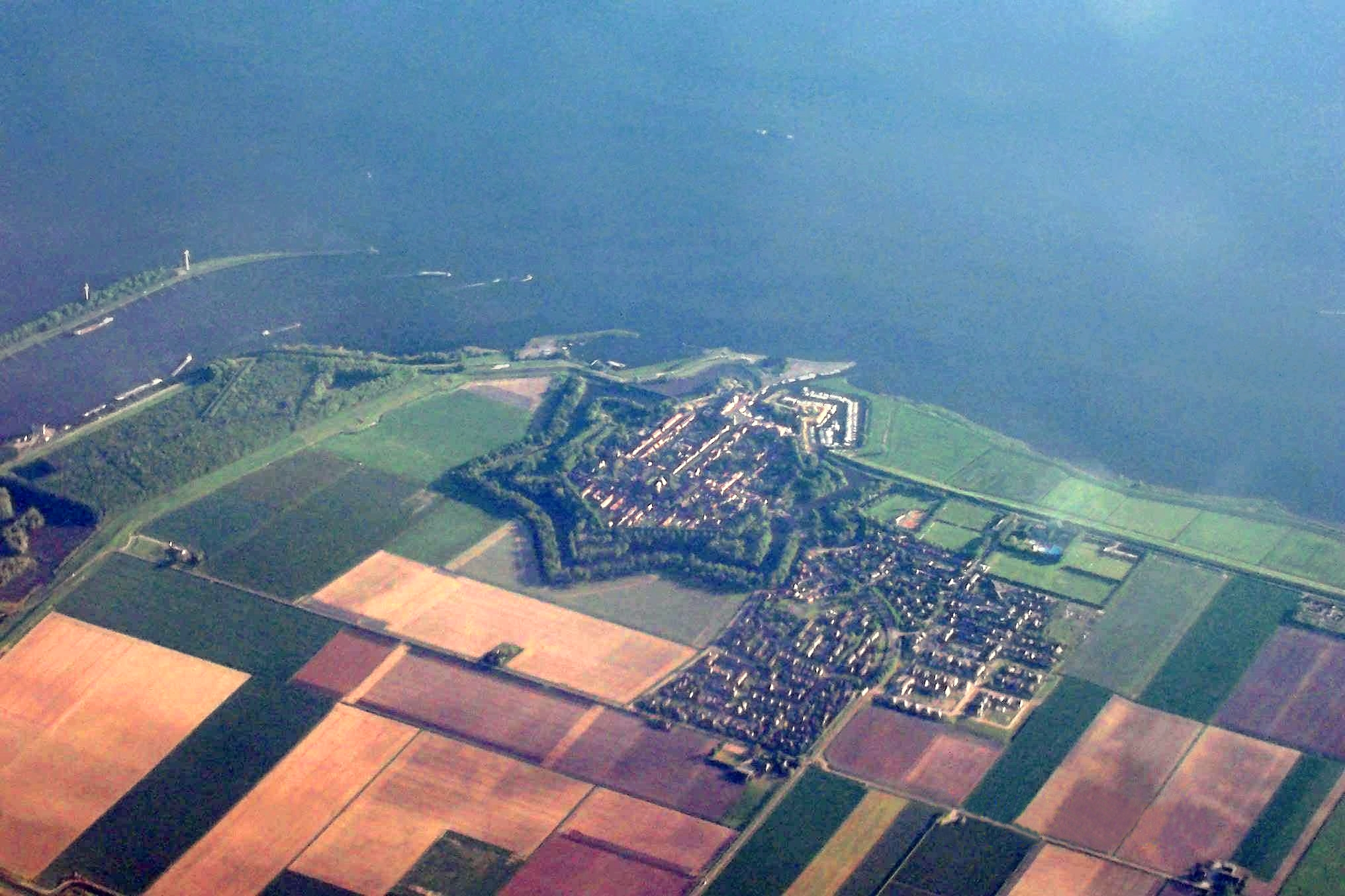 Willemstad (municipality Moerdijk), North-Brabant, the Netherlands. Fortress.